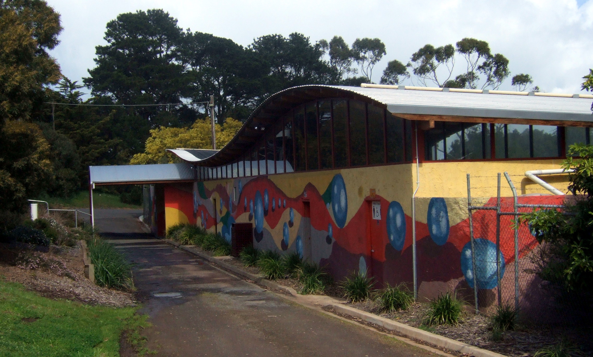 The exterior of the Hawkesdale Pool.